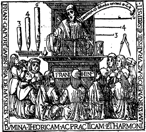 Title page of Gaffuri's treatise De harmonia musicorum instrumentorum opus (1518)